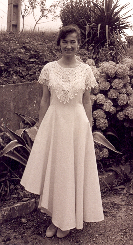 Basque bride. 1992.